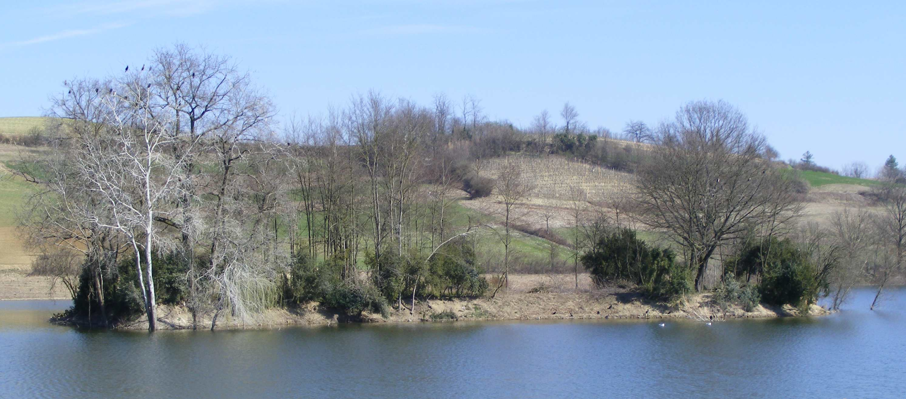 Lake of Arignano: the islet (Italy, Piedmont)